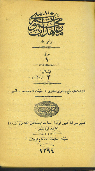 Gench Kalemler Front Page